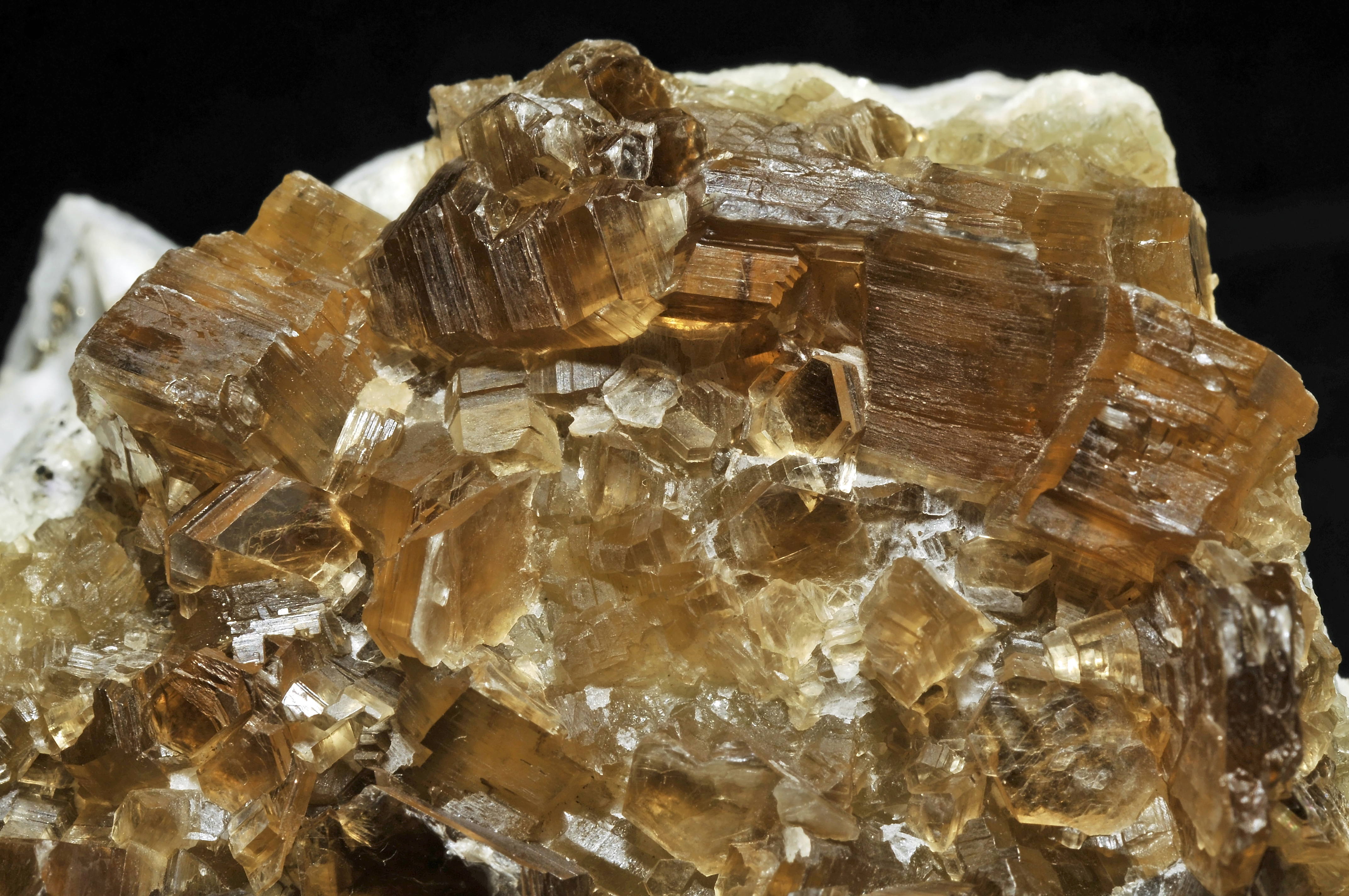 mica var. phlogopite : Ladjuar Medam (Lajur Madan ; Lapis-lazuli Mine ; Lapis-lazuli deposit), Sar-e Sang (Sar Sang ; Sary Sang), Koksha Valley (Kokscha Valley ; Kokcha Valley), Khash & Kuran Wa Munjan Districts, Badakhshan Province (Badakshan Province ; Badahsan Province), Afghanistan - 15 mm, 11 mm